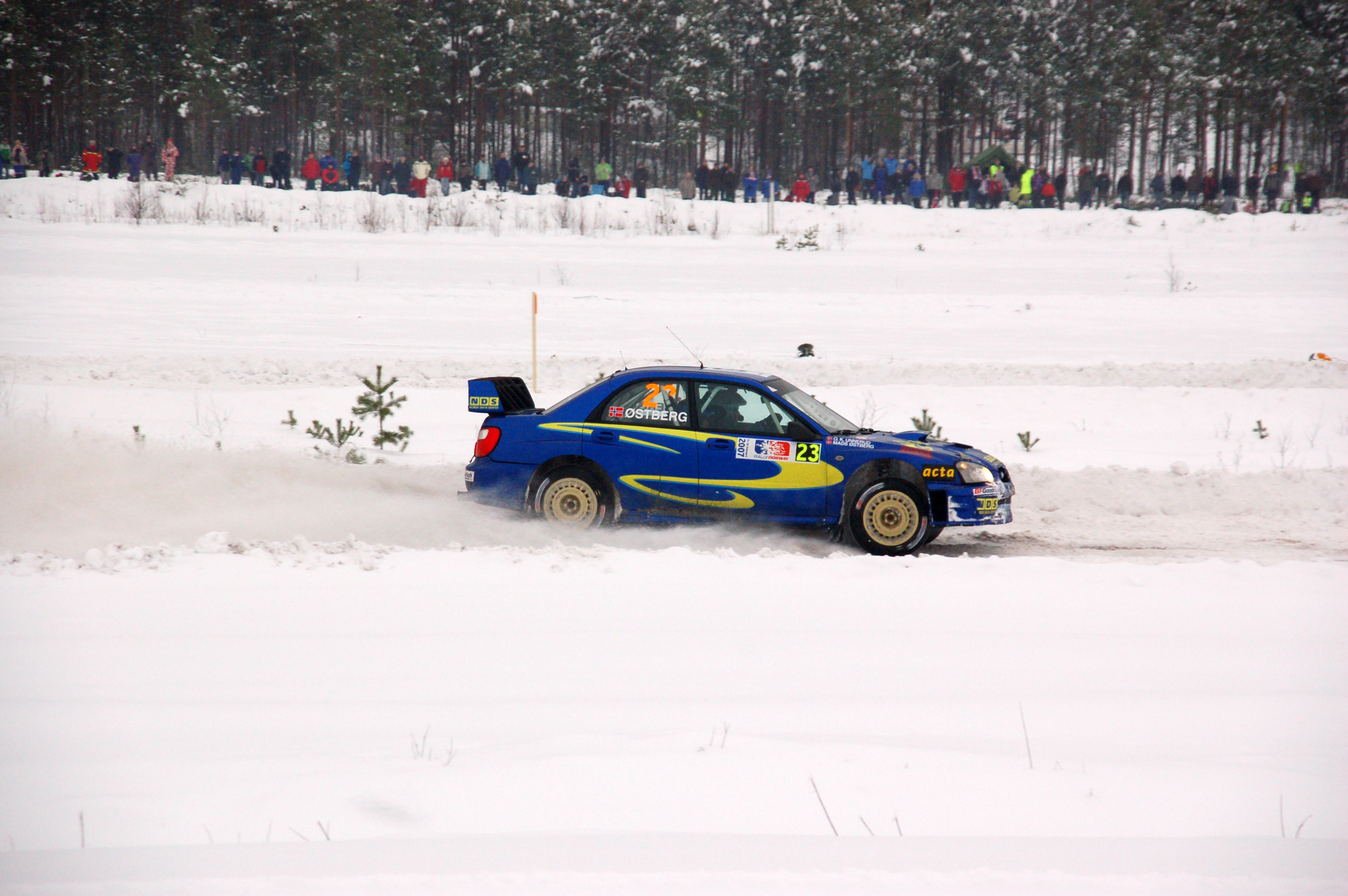 Mads Østberg during Rally Norway 2007